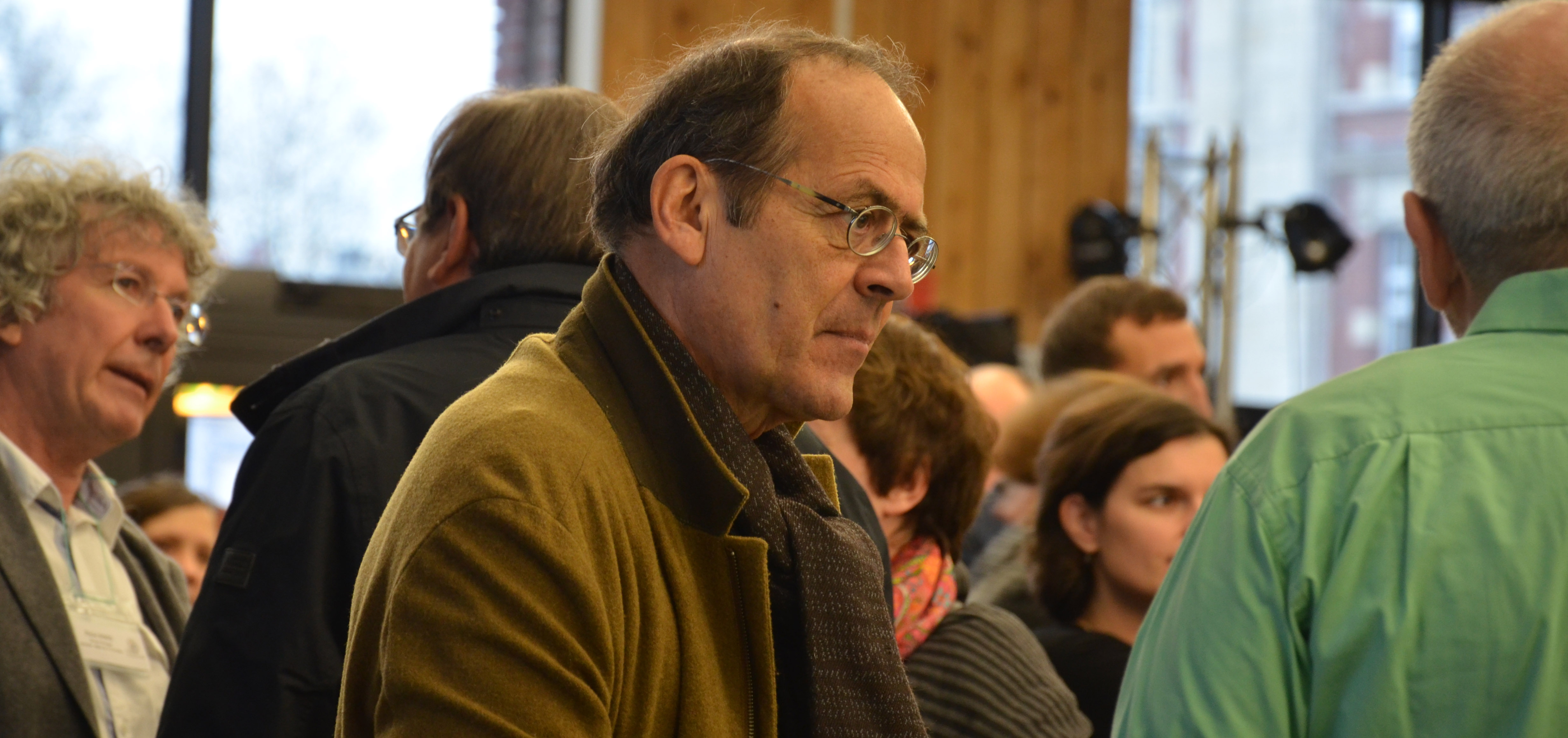 Bernard Stiegler, in Roumics (« Rencontres Ouvertes du Multimédia et de l’Internet Citoyen et Solidaire »), Lille, 2014